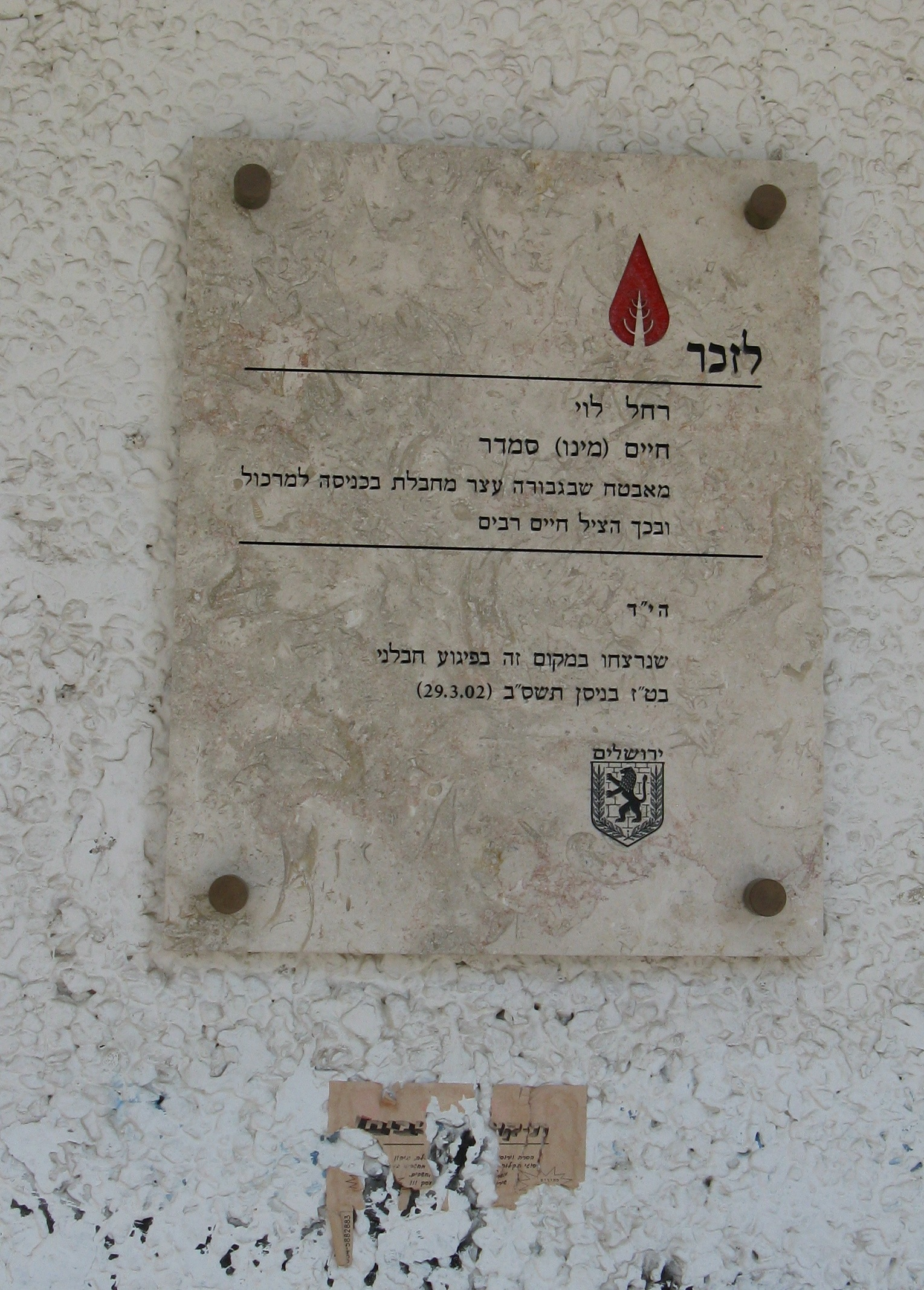 Memorial plaque for Haim Smadar at the entrance to the Kiryat HaYovel "SuperSol" supermarket, Jerusalem, Israel. Haim Smadar died here 29 Mar 2002, when stopping female Palestinian suicide bomber Ayat al-Akhras from entering the supermarket.